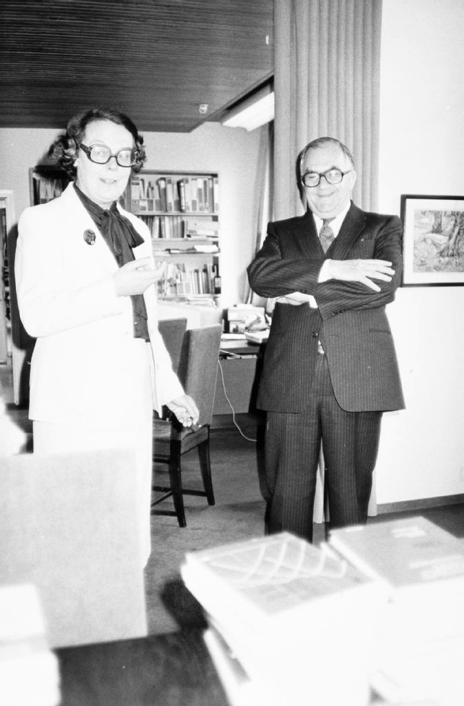 Photograph of the Finnish librarian Elin Törnudd (1924–2008) with a guest, the French ambassador Raymond Neuville.